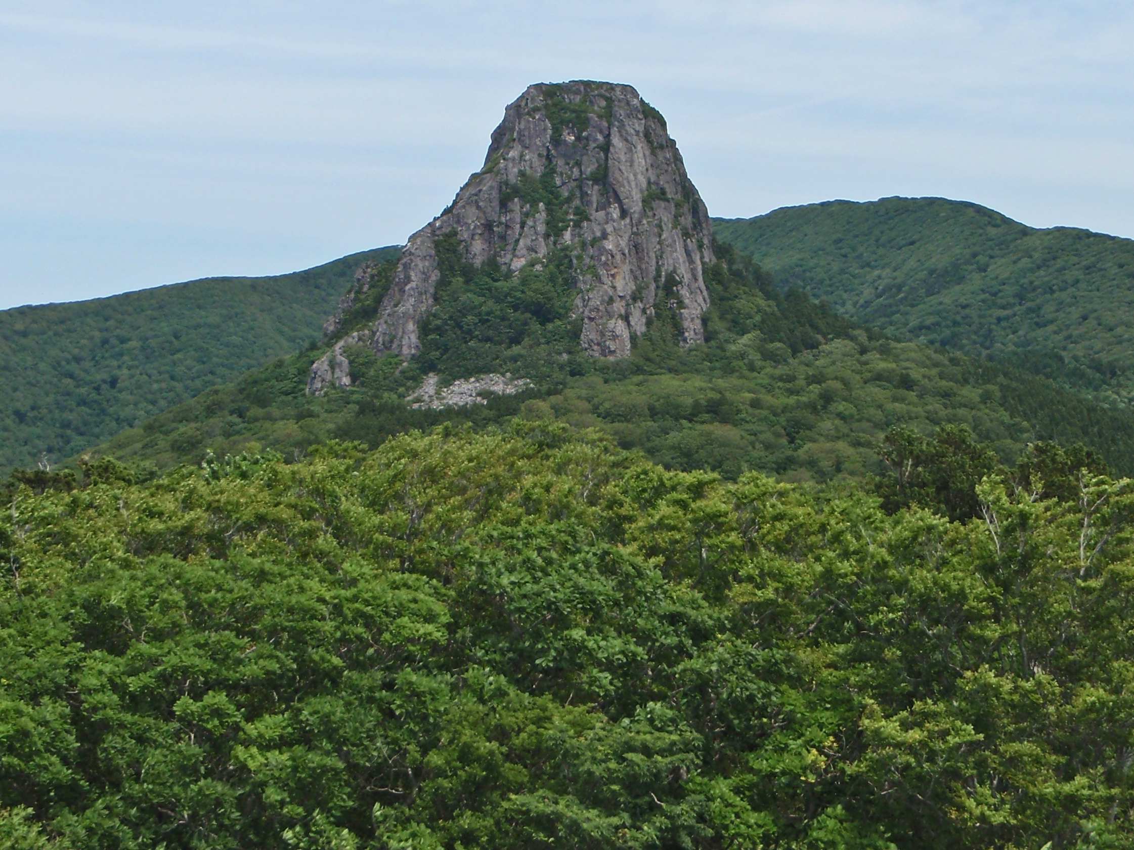 Mount Nuidoishi in Simokita Peninsula, Aomori Prefecture, Japan.